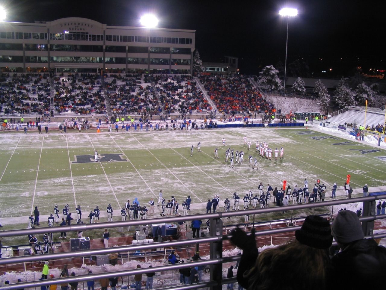 No. 10 Boise State had its way with Nevada on this night. Mackay Stadium is an outdoor athletic stadium in Reno, Nevada, on the campus of the University of Nevada. It is the university's venue for football and women's soccer for the Nevada Wolf Pack of the Mountain West Conference. Located on the northern portion of campus, at 17th Street & East Stadium Way, the stadium opened in 1966 with a seating capacity of 7,500. It replaced the original Mackay Stadium, formerly located in the bowl containing Hilliard Plaza, the Mack Social Sciences building, and the Reynolds School of Journalism. Both stadiums were named for Clarence Mackay, a university benefactor in the early years of the school. After several expansions, Mackay Stadium currently seats 30,000. The field sits at an elevation of 4,610 feet (1,410 m) above sea level and runs in a NW to SE configuration, with the press box on the southwest sideline. Permanent lighting was installed in 2003 to allow the option of night games. Originally natural grass, synthetic infill FieldTurf was installed in 2000 and replaced in 2010. In 2013, the playing surface at Mackay Stadium was named Chris Ault Field in honor of the former Wolf Pack head coach, College Football Hall of Famer, creator of the Pistol offense in 2005, and for his contributions to Wolf Pack football. The Wolf Pack football single-season attendance record was set in 1991 with a total of 180,457 fans over nine home games, including playoffs; and the regular-season attendance record was set at 151,081 fans in 1993.